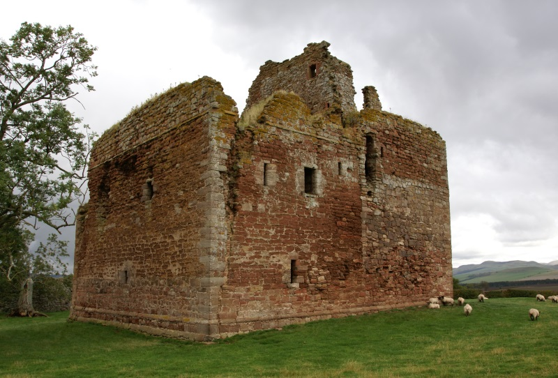 Cessford Castle, Scottish Borders, Scotland. View from the west.